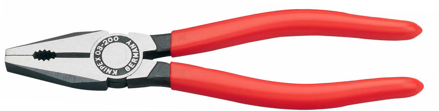 Combination Pliers Knipex 03 01 200